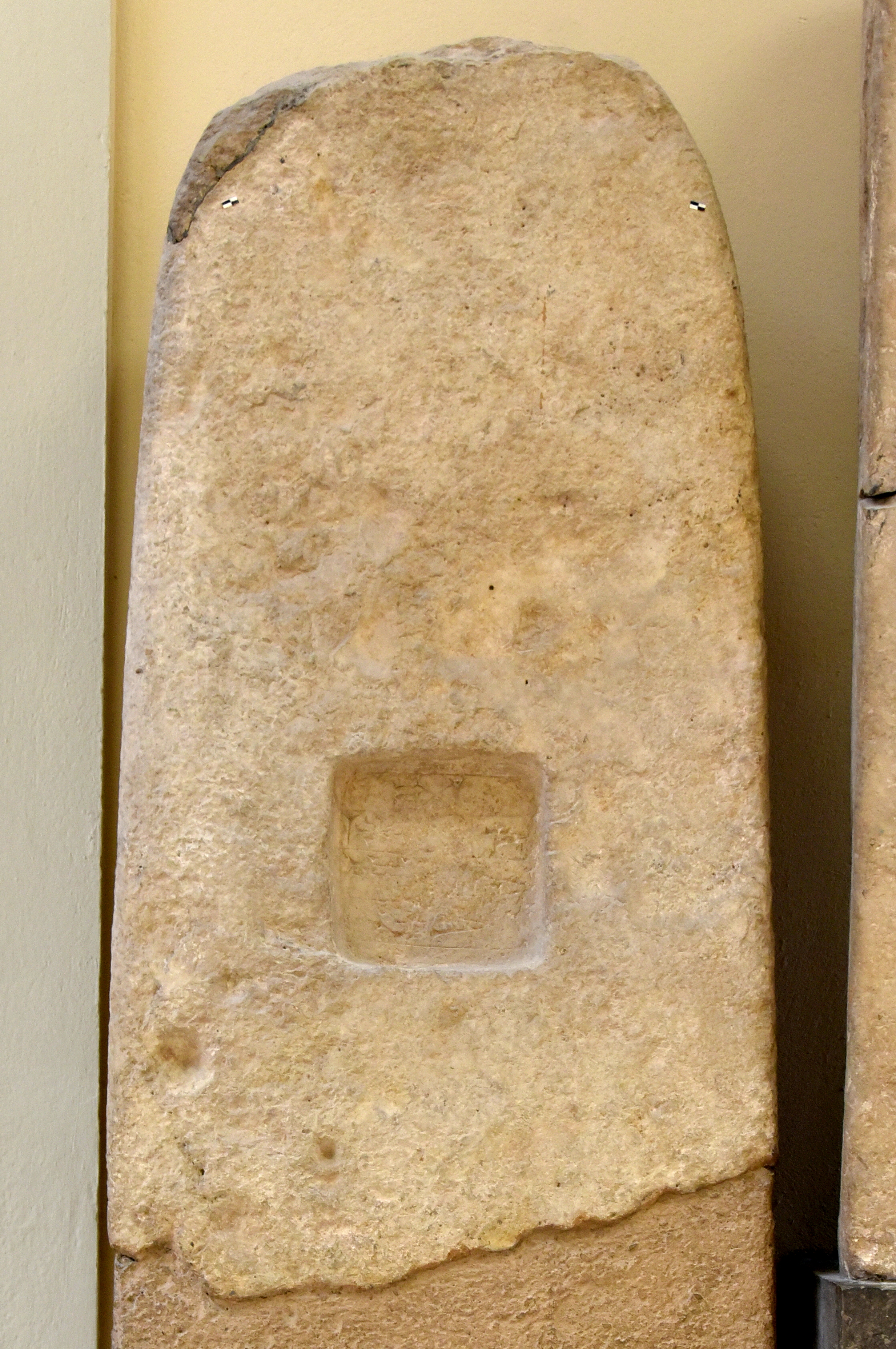 Limestone stele of the Assyrian king Shalmaneser I, 1263-1234 BCE. From the Rows of Stelae (Stelenreihen) at Assur (Ashur), Iraq. Pergamon Museum, Berlin, Germany.